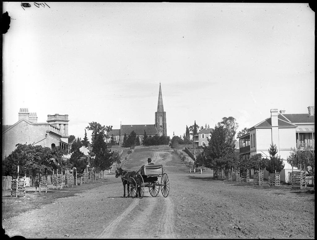 Format: Glass plate negative. Repository: Tyrrell Photographic Collection, Powerhouse Museum Part Of: Powerhouse Museum Collection General information about the Powerhouse Museum Collection is available at Persistent URL: Acquisition credit line: Gift of Australian Consolidated Press under the Taxation Incentives for the Arts Scheme, 1985